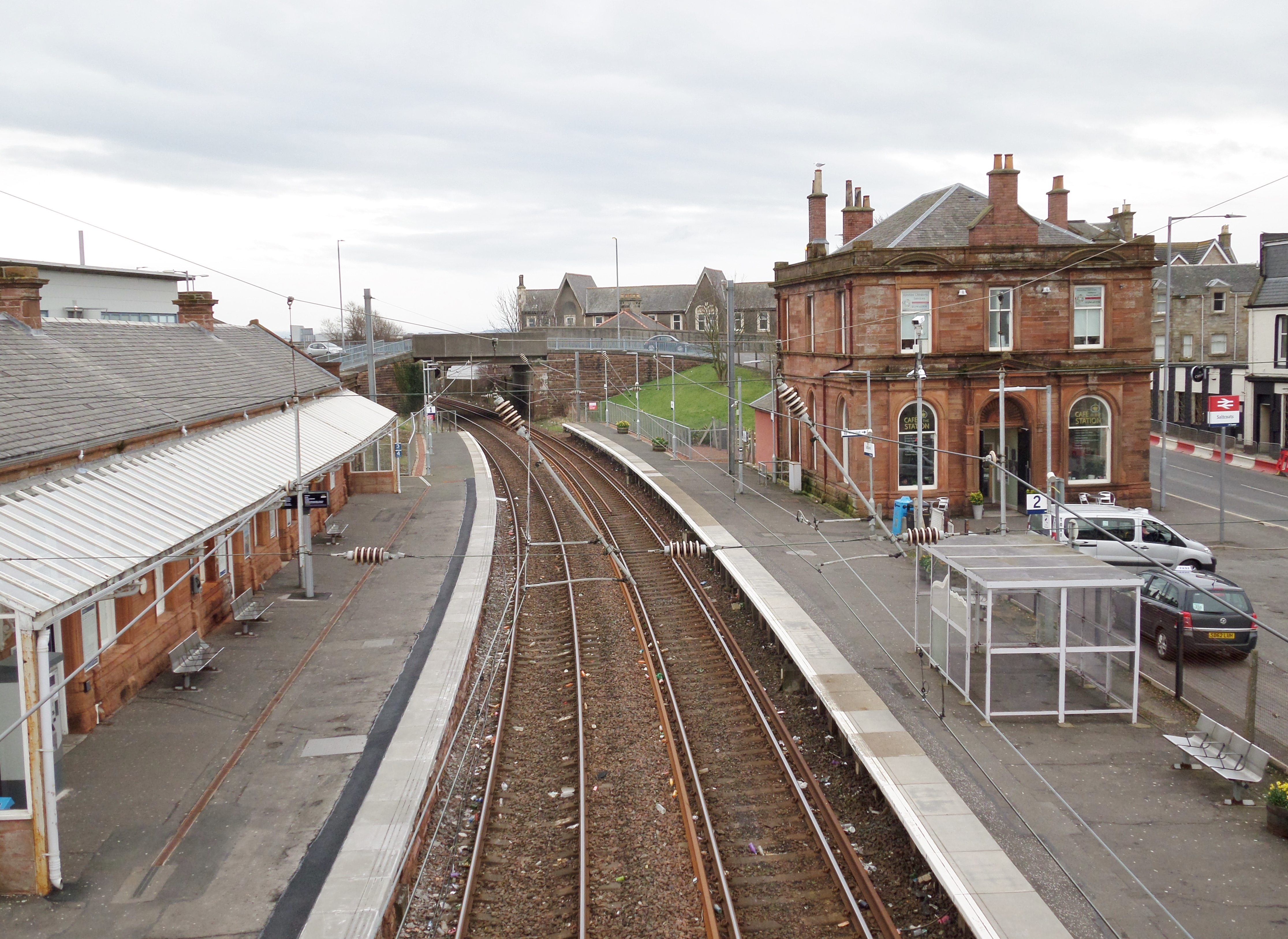 Saltcoats railway station, old offices and station master's house, North Ayrshire, Scotland. Largs and Ardrossan Harbour lines.